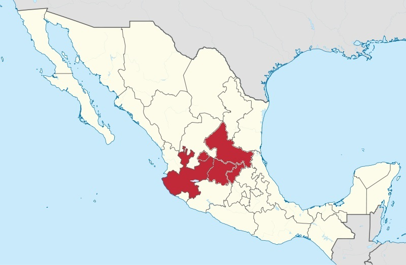 Alianza Bajío-Occidente Map